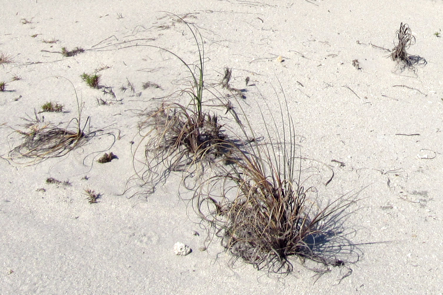 Sea oats (Uniola paniculata) on a sand dune at John U. Lloyd Beach State Park, Florida.